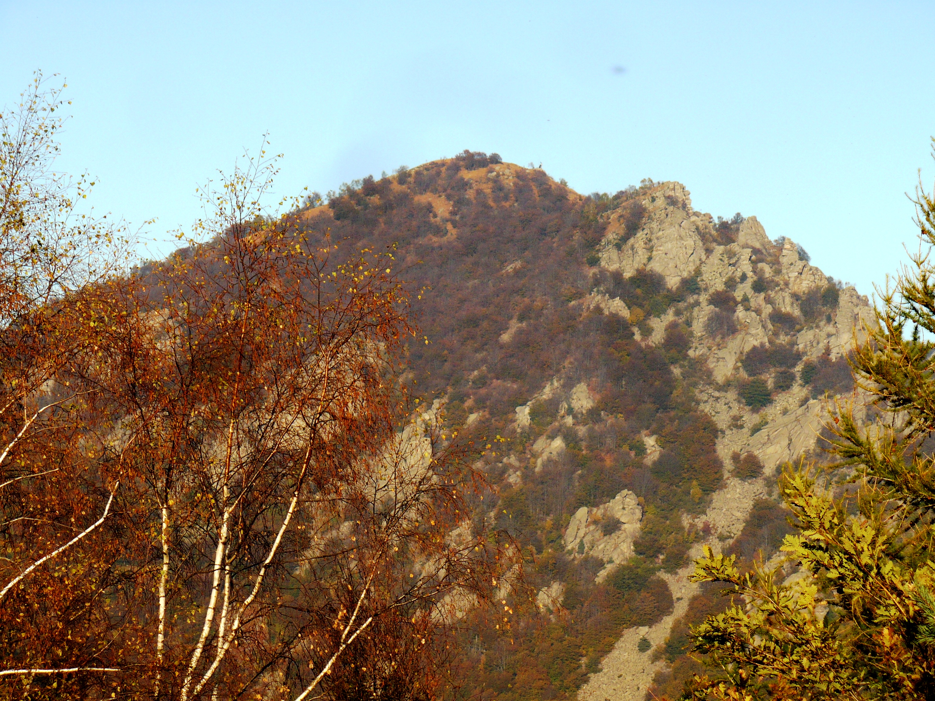 Mont Freidour - Cottian Alps - Province of Turin - Piedmont - Italy